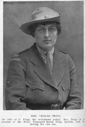 Mrs Winifred Trigg, wife of the well-known jockey Charlie Trigg, pictured in 1917